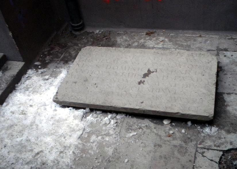 Memorial stone with Latin text honoring those buried at Black Friars’ Cloister Svartbrödraklostret (burial place of Queens Beatrice and Richardice)Place: Courtyard, Svartmangatan 20, Stockholm, Sweden